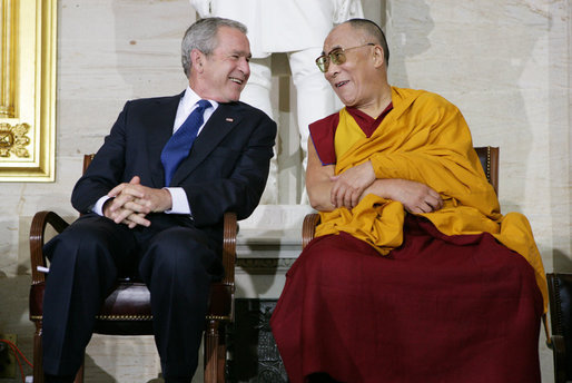 President George W. Bush and The Dalai Lama share a laugh Wednesday, Oct. 17, 2007, during the ceremony at the U.S. Capitol in Washington, D.C., for the presentation of the Congressional Gold Medal to The Dalai Lama.